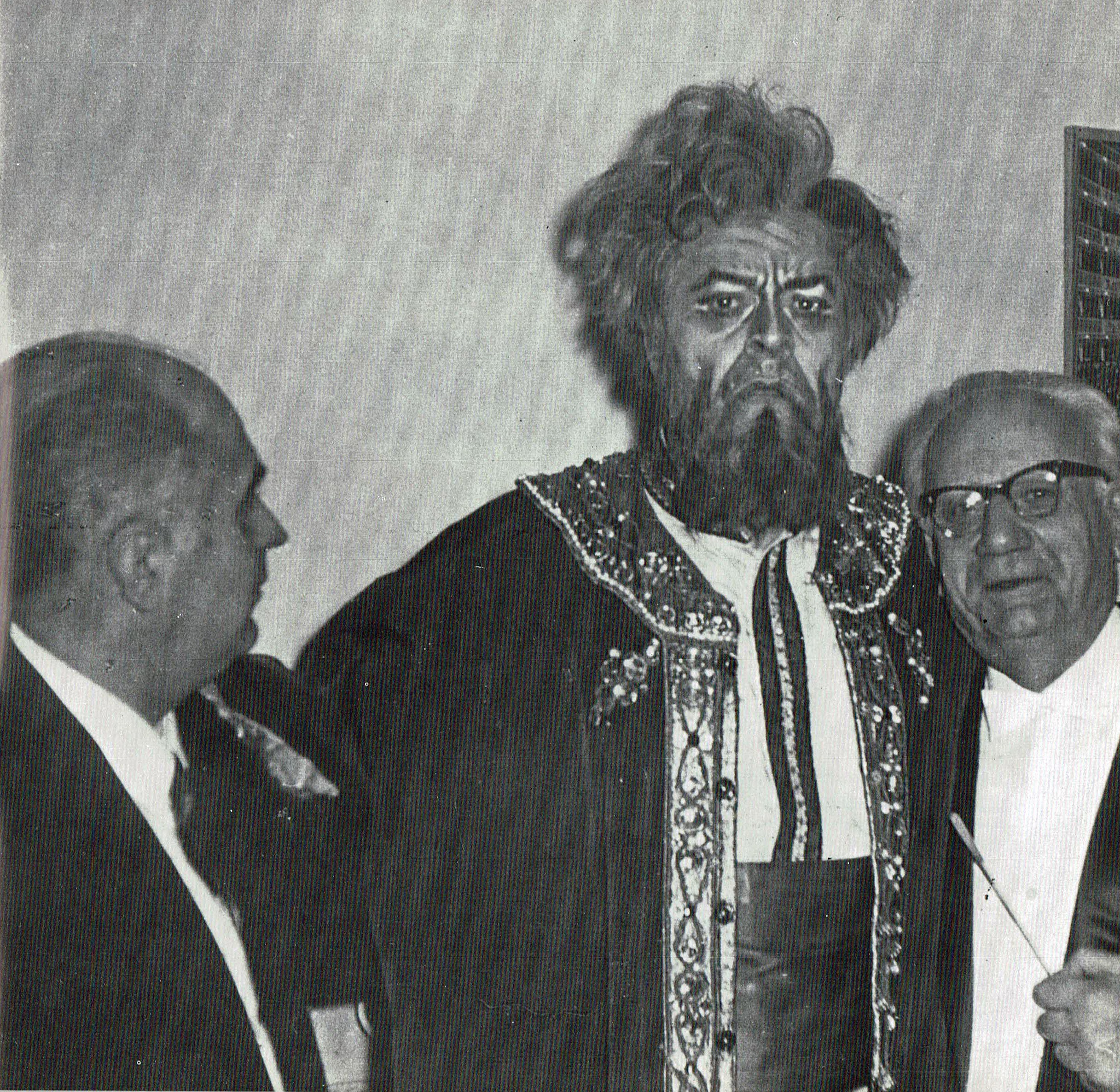 Opera director Emil Boshnakov (left) with opera singer Boris Hristov (center) in the role of Boris Godunov, 1979